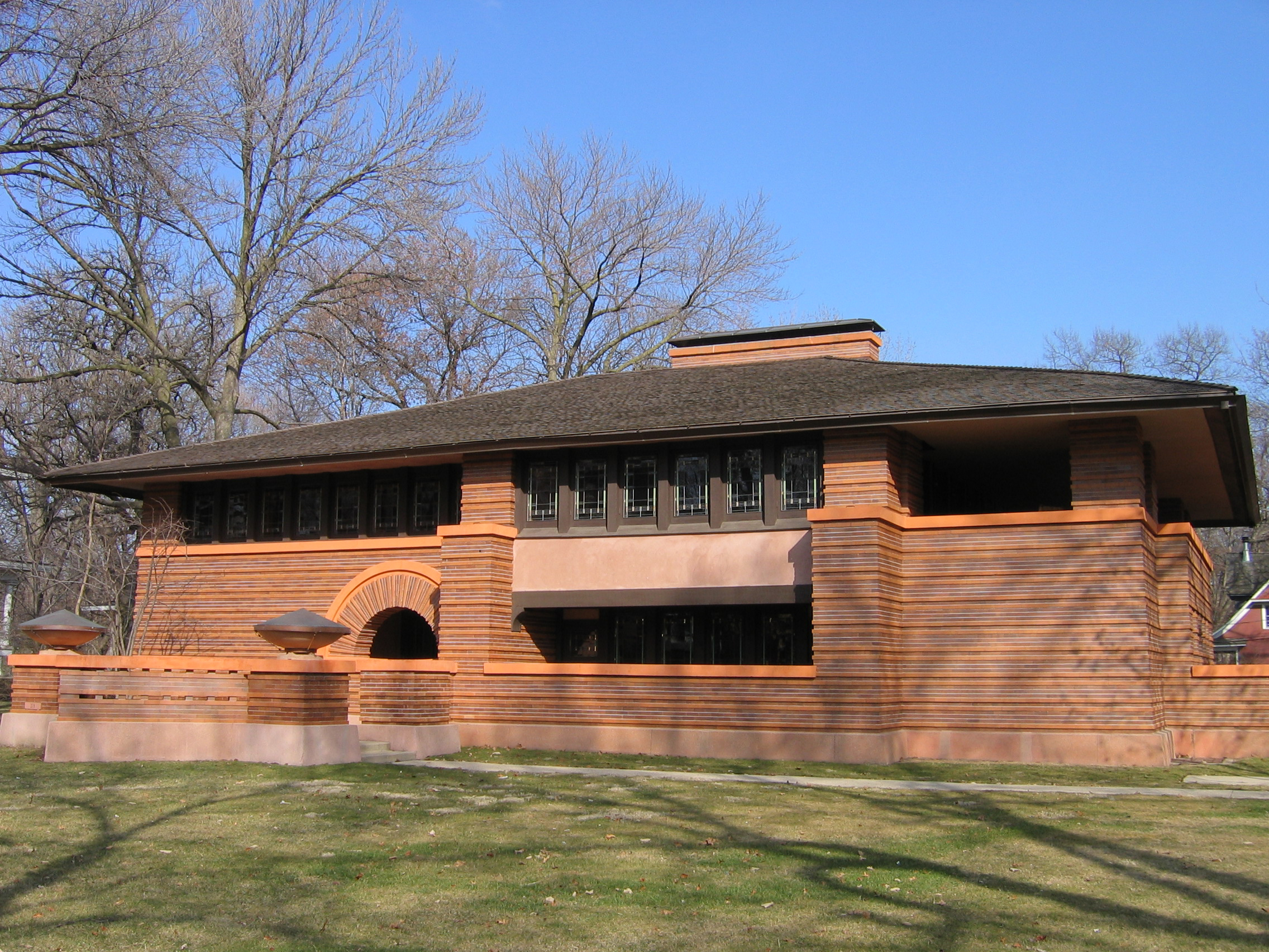 The Arthur Heurtley House on Forest Avenue (designed by Frank Lloyd Wright) by User:AudeVivere